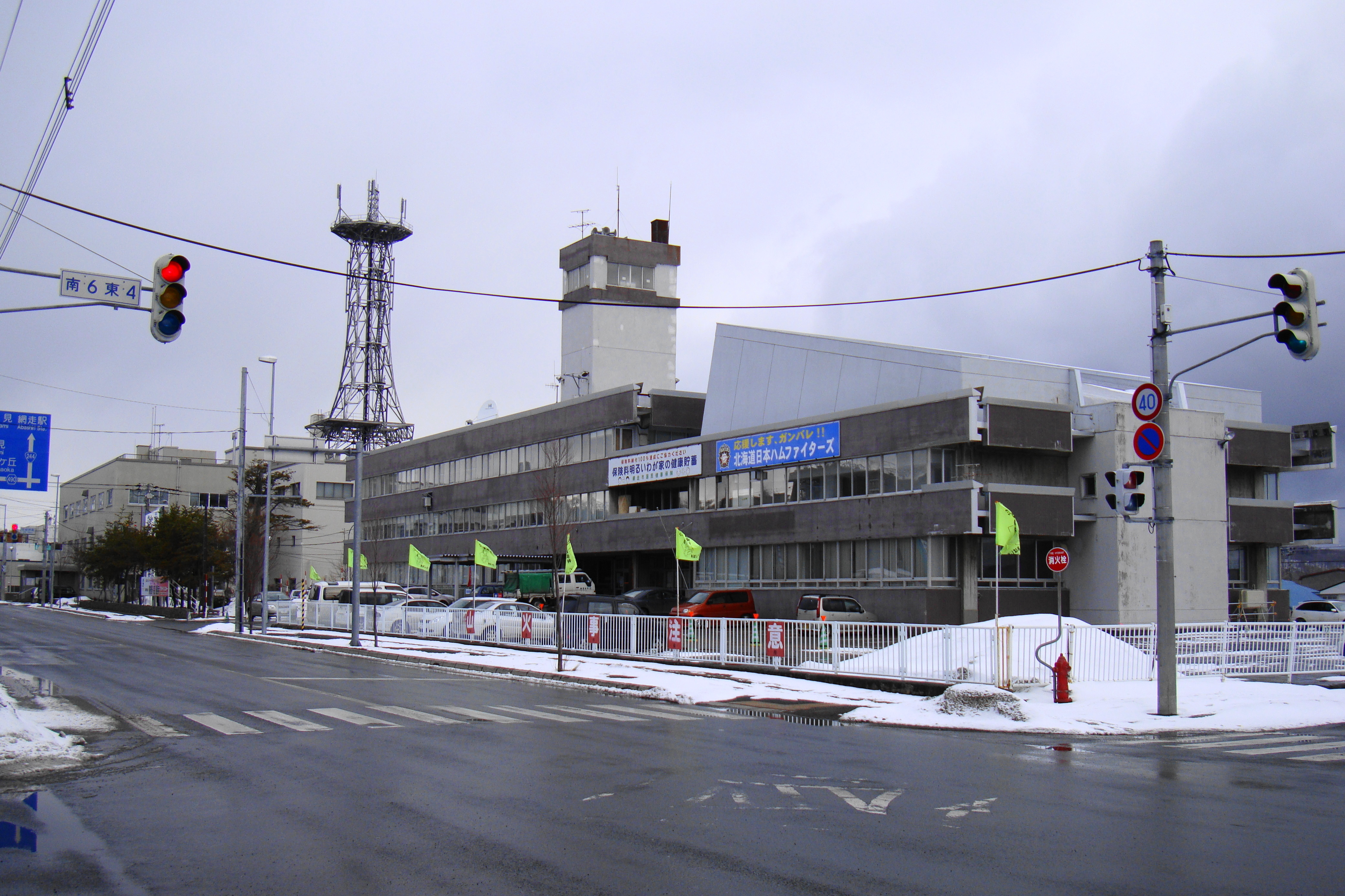 Abashiri City Hall